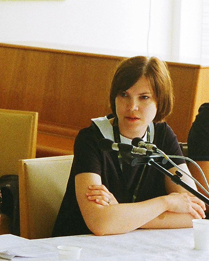 Sara Bergmark Elfgren